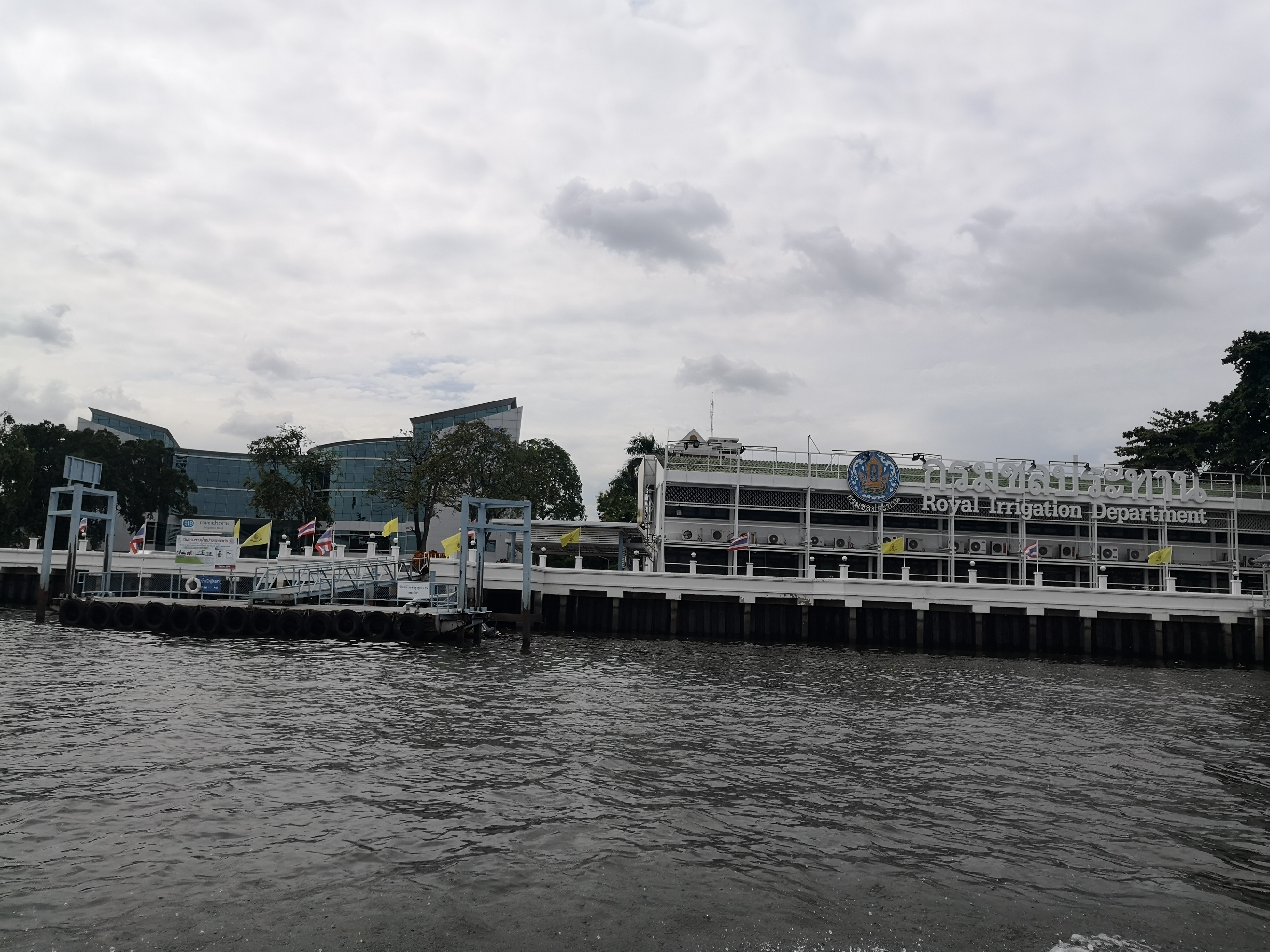 Royal Irrigation Department of Thailand